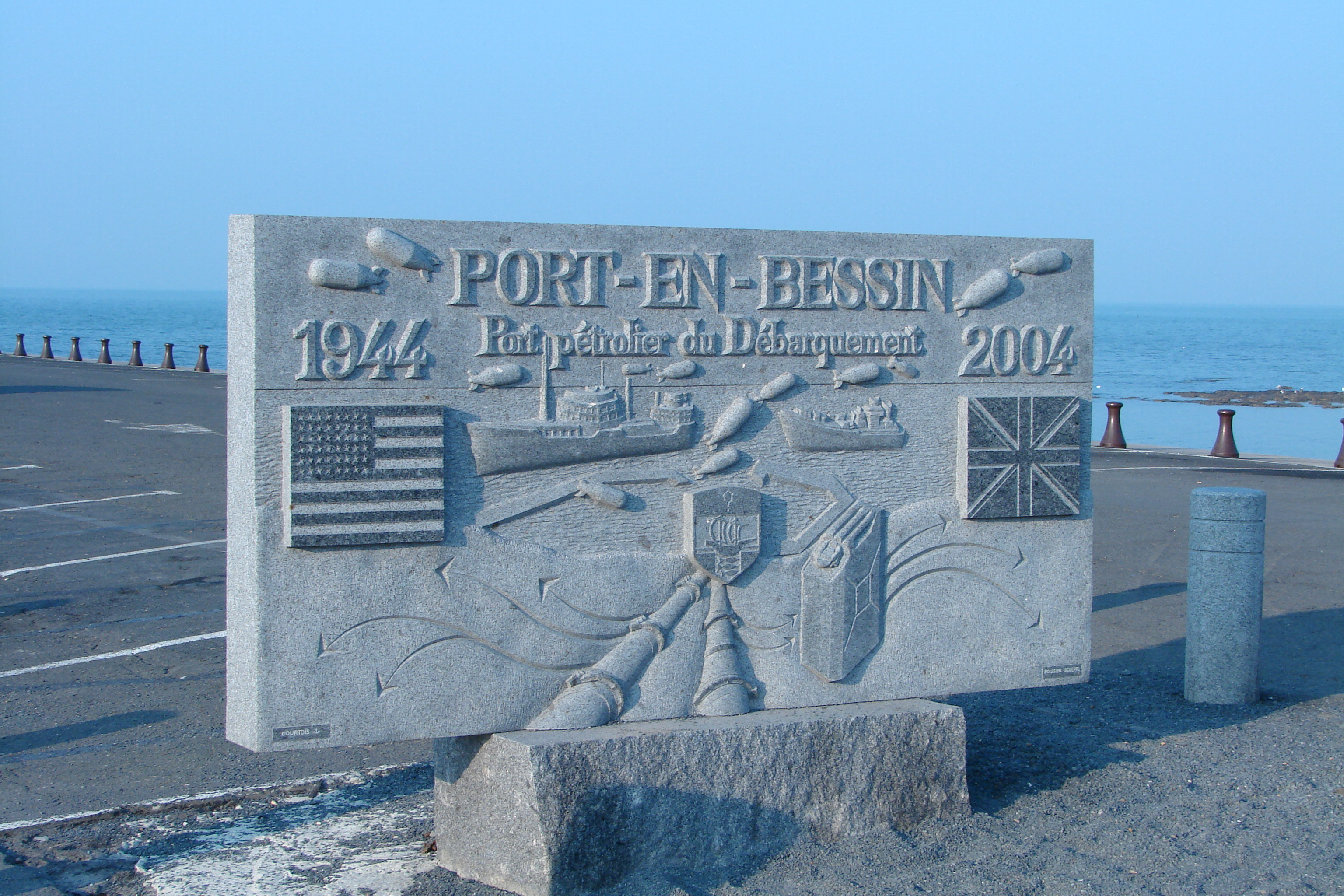 Picture taken by myself of Port-en-Bessin-Huppain, Calvados. The tablet of the D-day